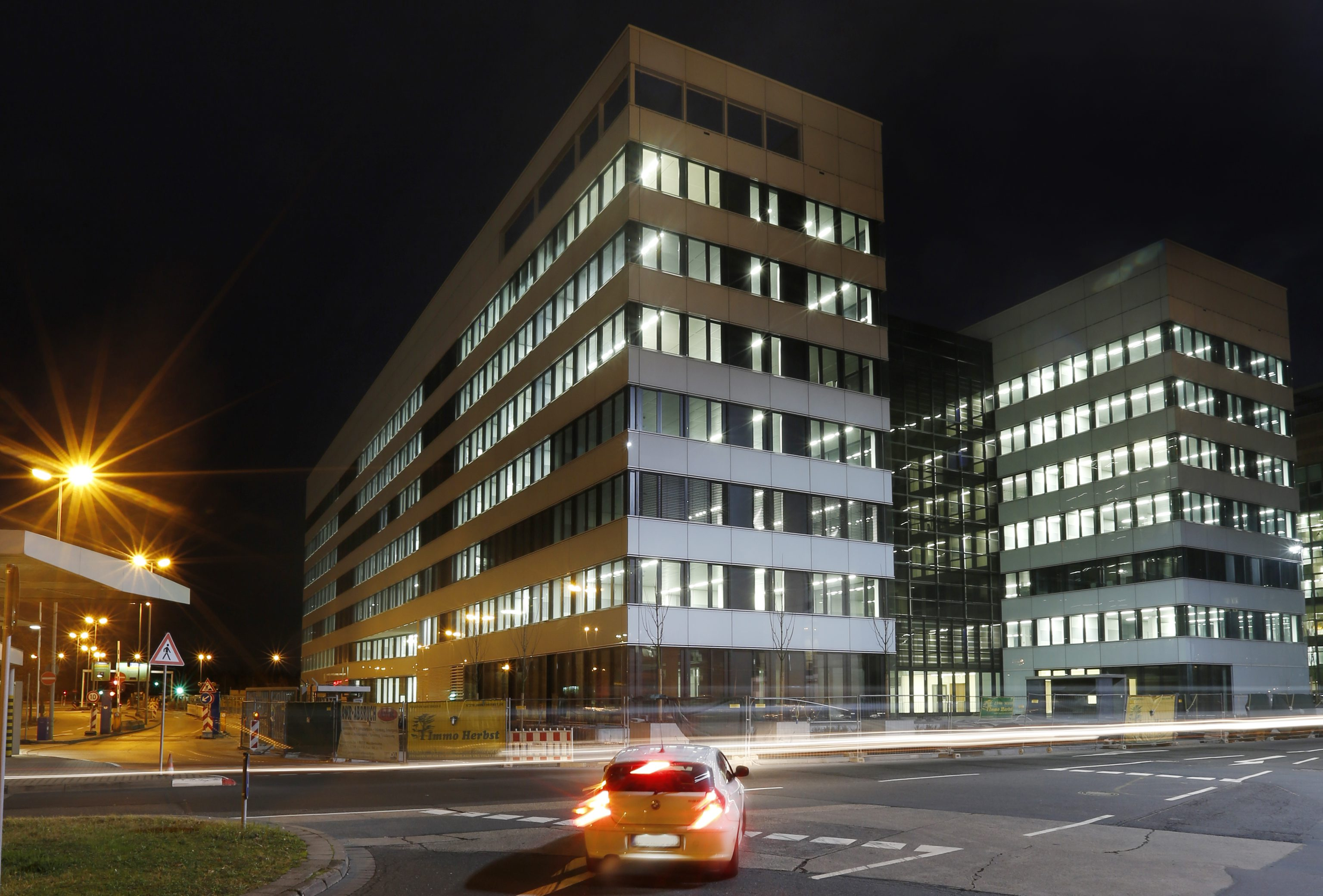 Head office of Fraport AG at night, March 2013